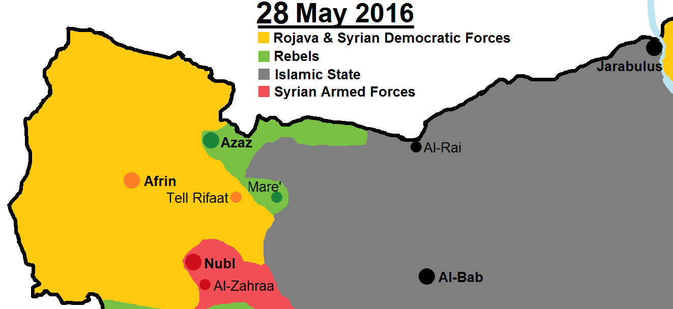 A map of territorial control in northern Aleppo Governorate.